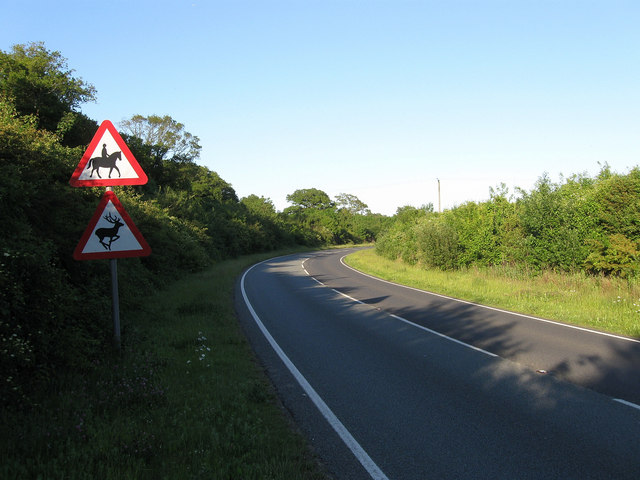 Titnore Lane Marked on some maps as the A2700 but this information has been covered over on all the road signs in the vicinity. Titnore Lane begins at Goring Crossways and headed north to a junction with the A27 Arundel Road beyond the bushes on the curve. When the A27 was widened and a new junction with the A280 built in the early 1990s Titnore Lane was extended westwards to meet the roundabout on the southern side of the A280. The road is a notorious ratrun for those wishing to get in and out of the suburbs of western Worthing.